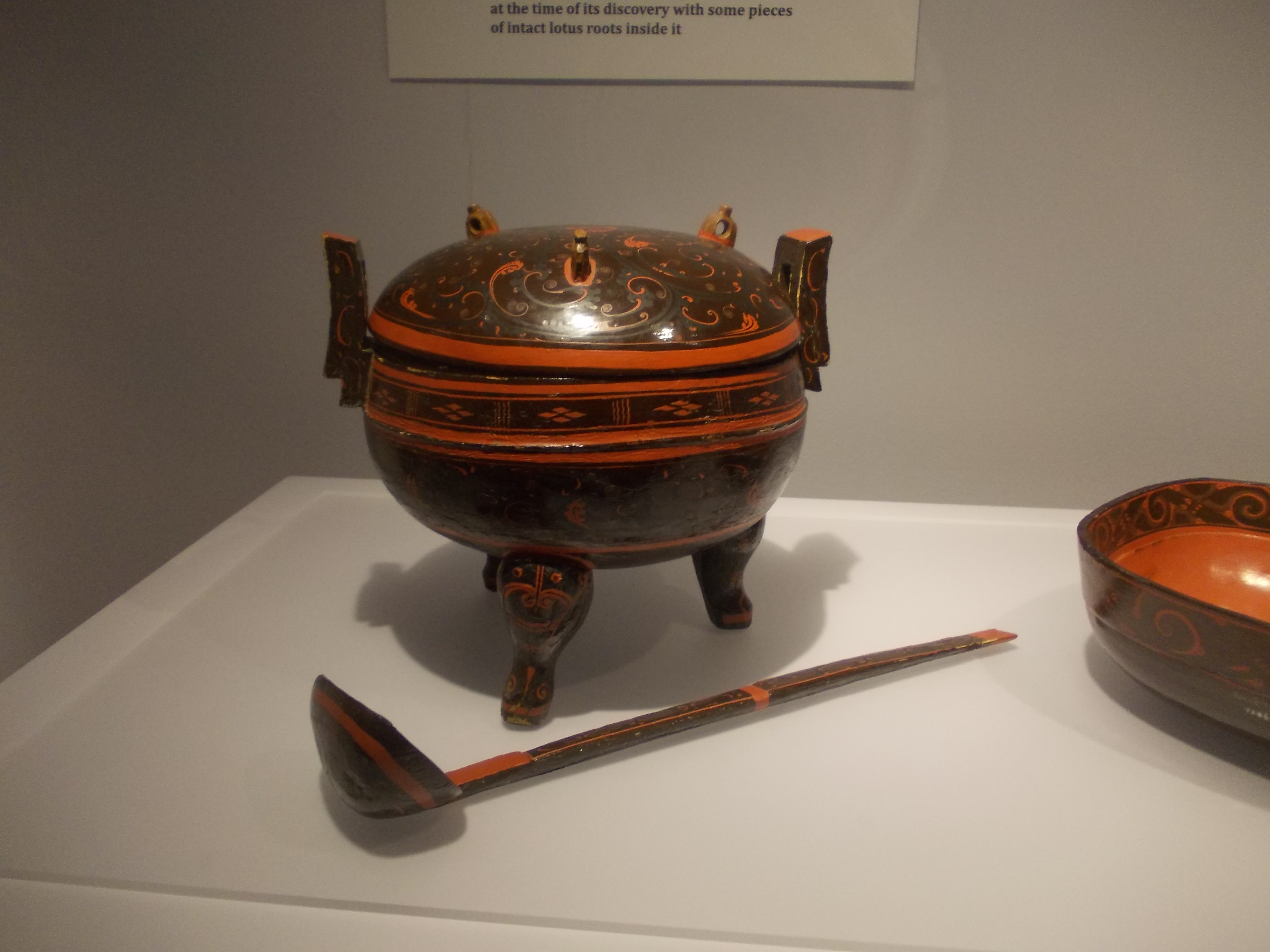 Laquer pottery found at Mawangdui